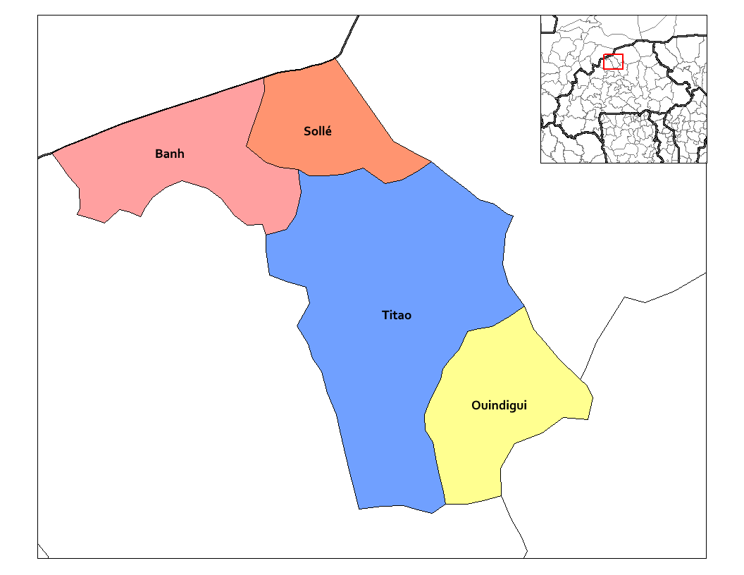 This map has been uploaded by Osiris fancy from to enable the Wikimedia Atlas of the World. Original uploader to was Rarelibra. Osiris fancy is not the creator of this map. Licensing information is below. Map of the departments of Loroum province in Burkina Faso. Created by Rarelibra 03:27, 30 September 2006 (UTC) for public domain use, using MapInfo Professional v8.5 and various mapping resources.